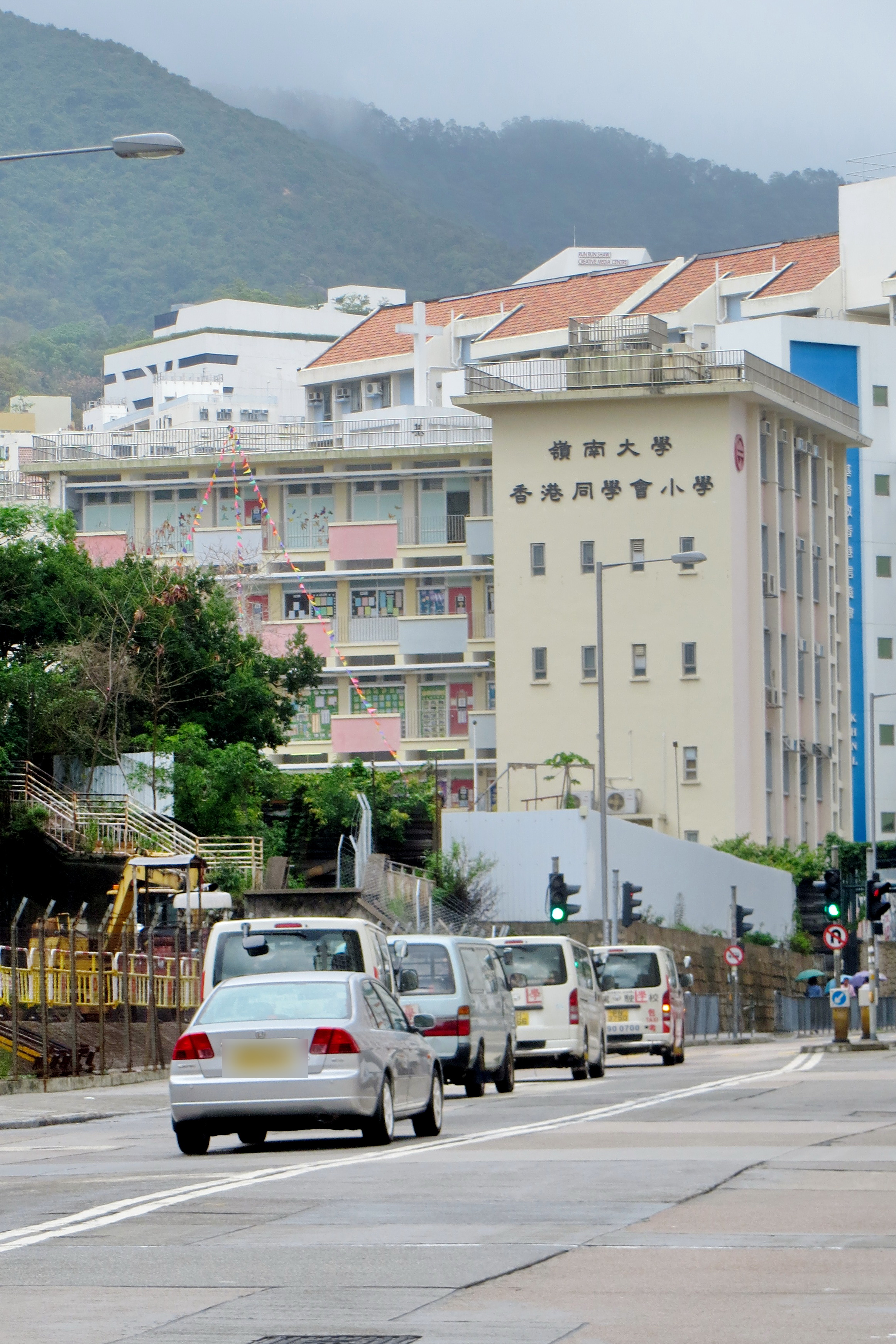 Lingnan University Alumni Association (HK) Primary School, Kowloon, Hong Kong.